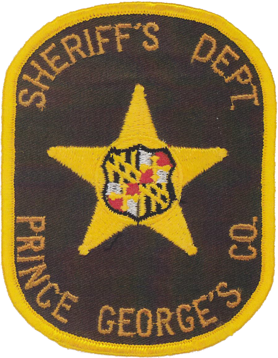 Patch of the Prince George's County Sheriff's Office (former), 12 inches tall.